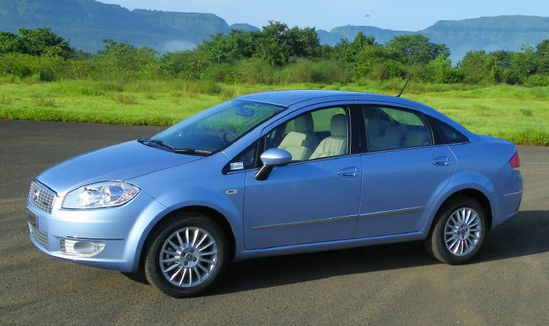 At Aamby Valley, Lonavala, the Fiat Linea TJet being put through its paces . . .cropped by Mr.choppers